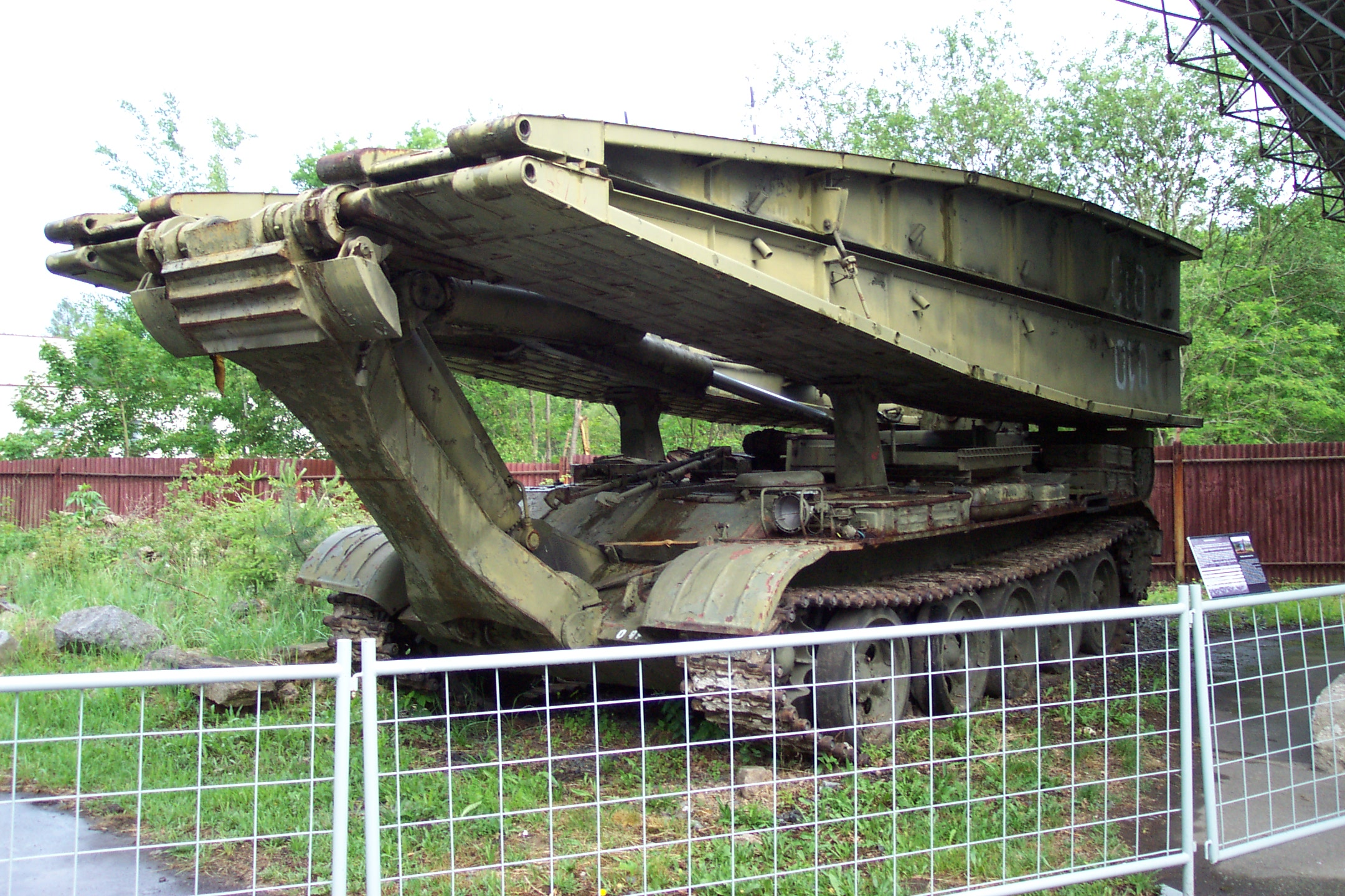 Mobile bridge vehicle in the army museum in Lešany